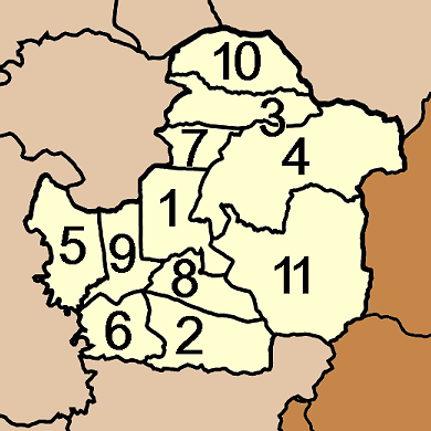 Map of Ban Na San district, Surat Thani province, with the communes (tambon) numbered Na San (นาสาร) Phru Phi (พรุพี) Thung Tao (ทุ่งเตา) Lamphun (ลำพูน) Tha Chi (ท่าชี) Khuan Si (ควนศรี) Khuan Suban (ควนสุบรรณ) Khlong Prap (คลองปราบ) Namphu (น้ำพุ) Thung Tao Mai (ทุ่งเตาใหม่) Phoemphun Sap (เพิ่มพูนทรัพย์)